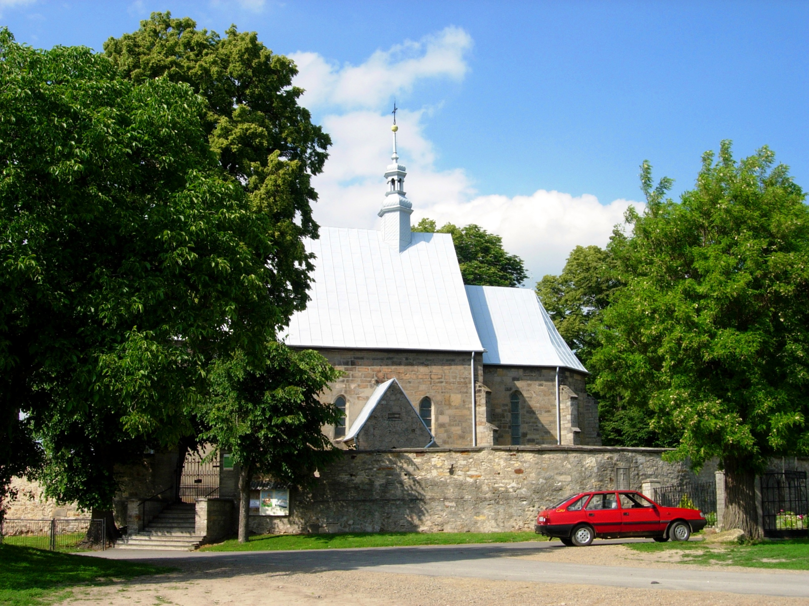 Saint Giles Church in Ptkanów (Poland)